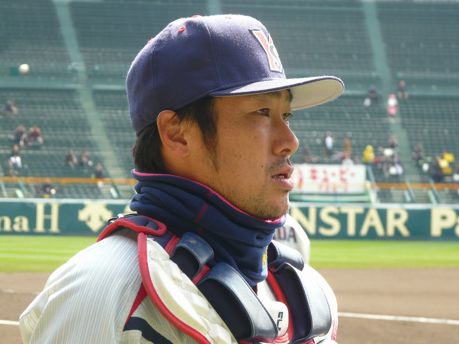 Ryoji Aikawa, catcher of the Tokyo Yakult Swallows, at Hanshin Koshien Stadium.